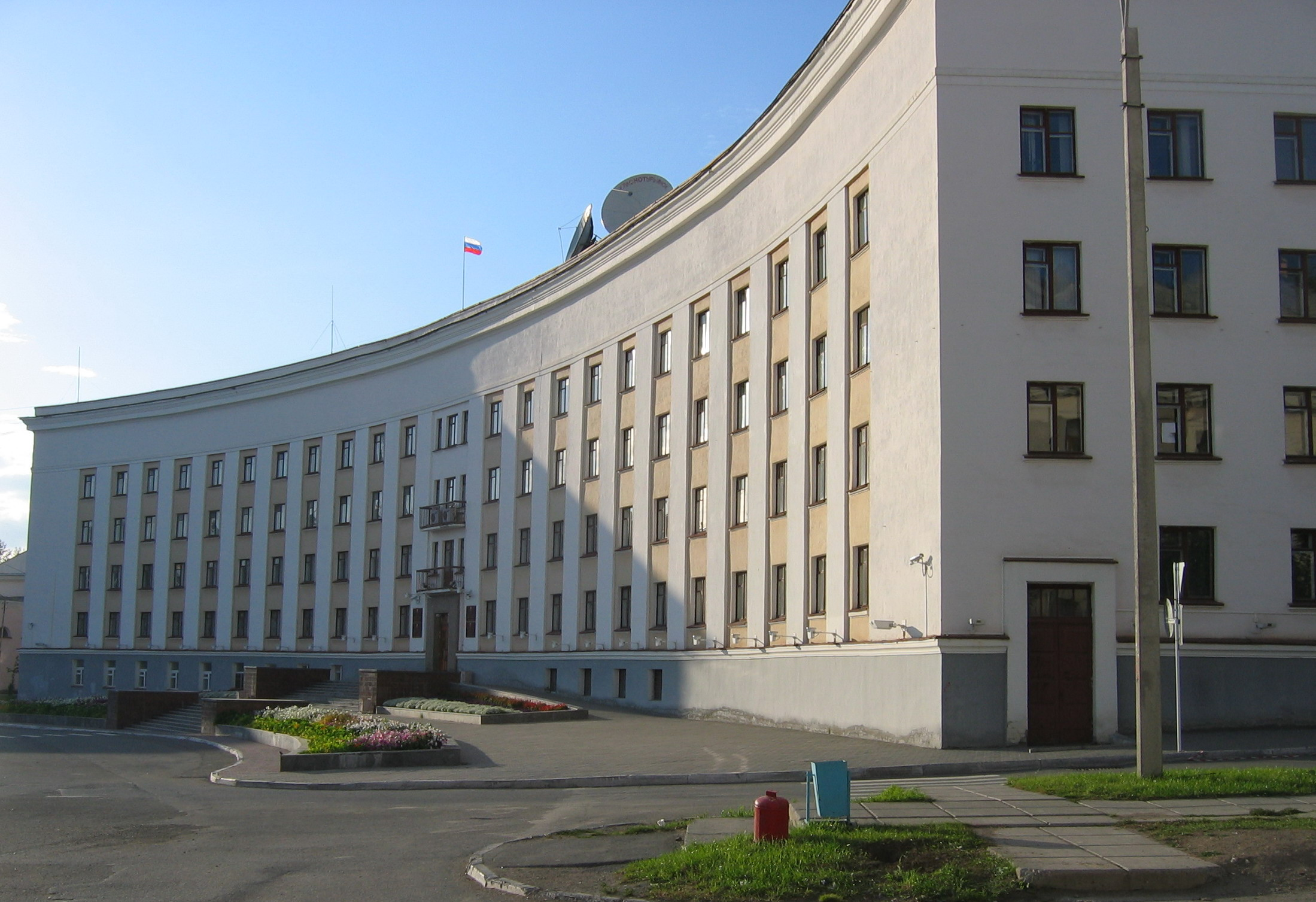 The building of the Krasnoturyinsk municipal administration